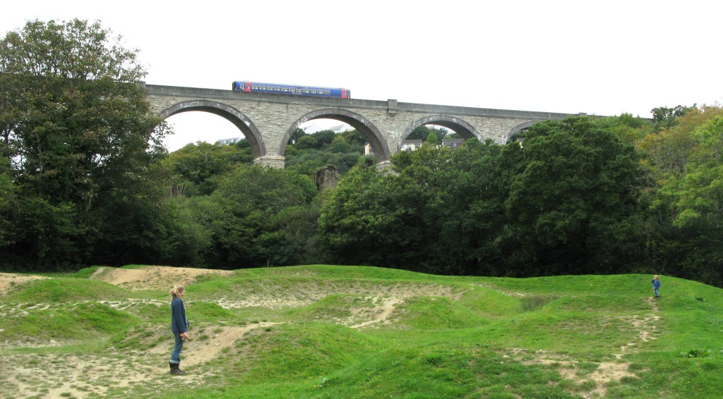 First Great Western 153377 passes over Collegewood Viaduct in Penryn, Cornwall.